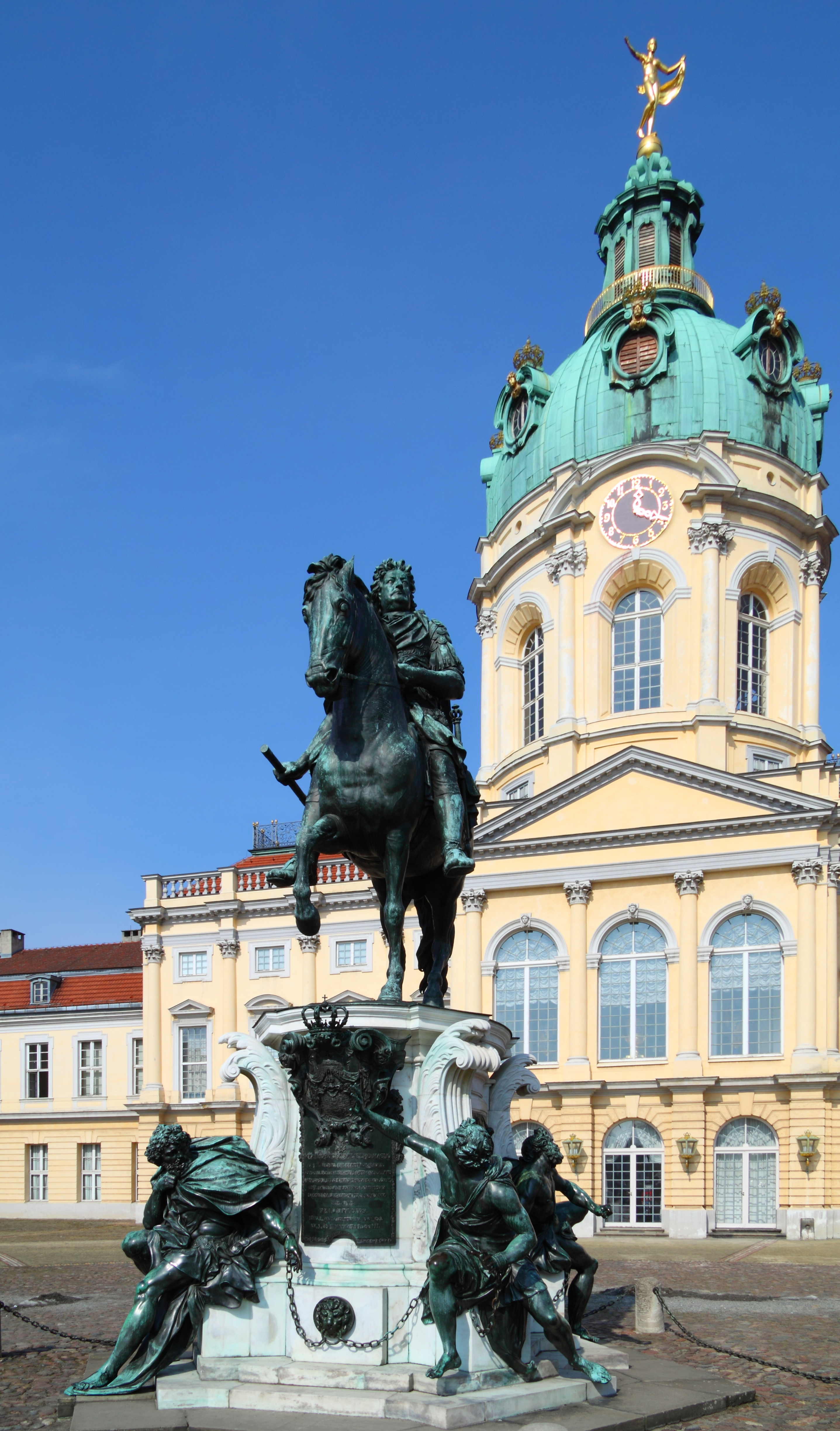 Bronze statue of Frederick William I, Elector of Brandenburg in the cour d'honneur of Charlottenburg Palace.